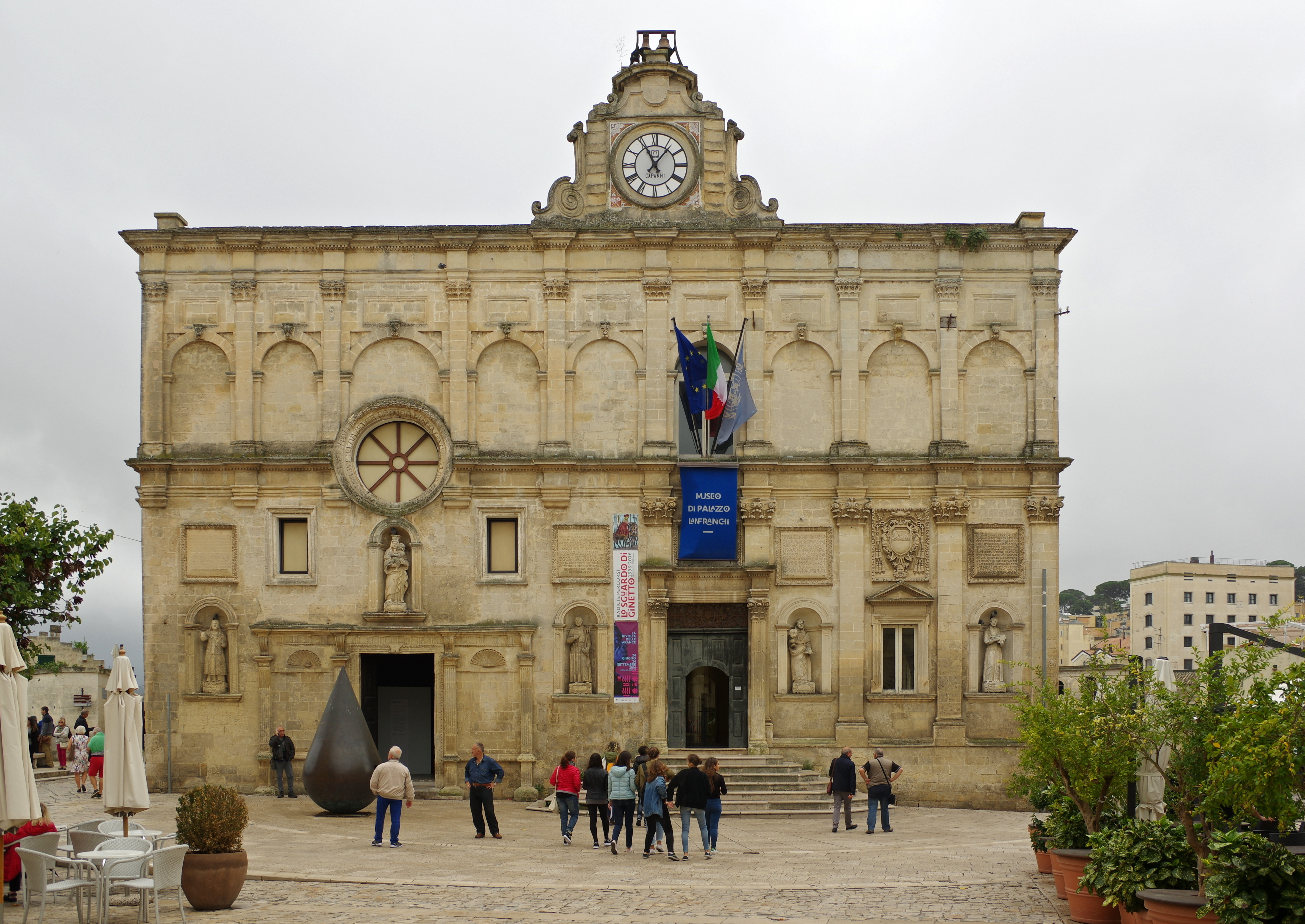 Italy, Matera, Palazzo Lanfranchi